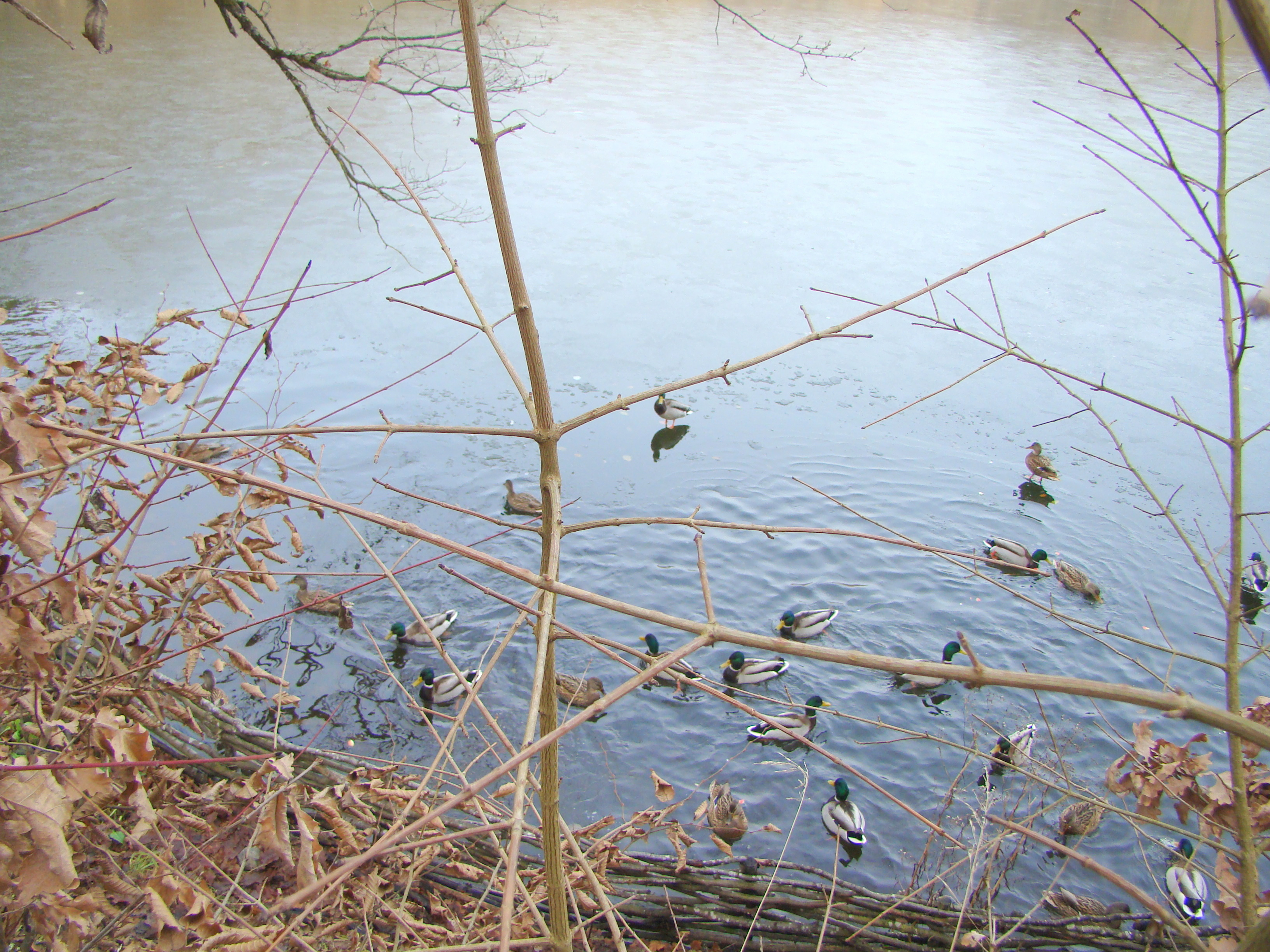 Lake Ursu Natural Reserve